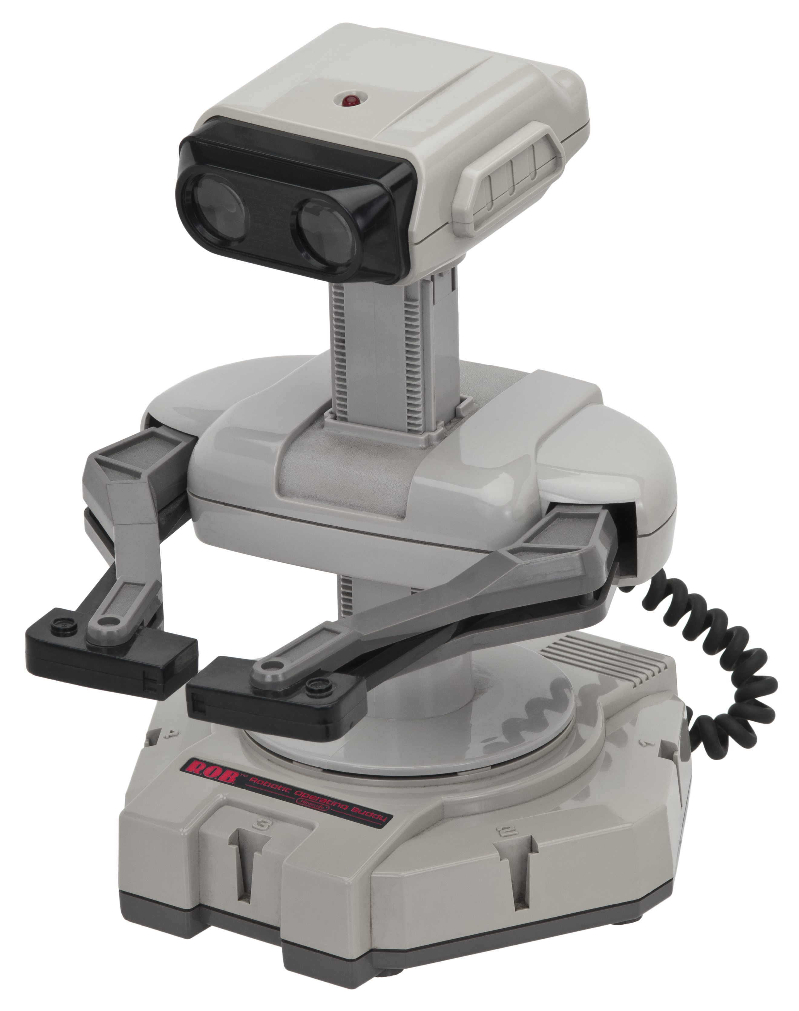 R.O.B., or Robotic Operating Buddy. A barely supported accessory for the original Nintendo that was introduced in 1985.